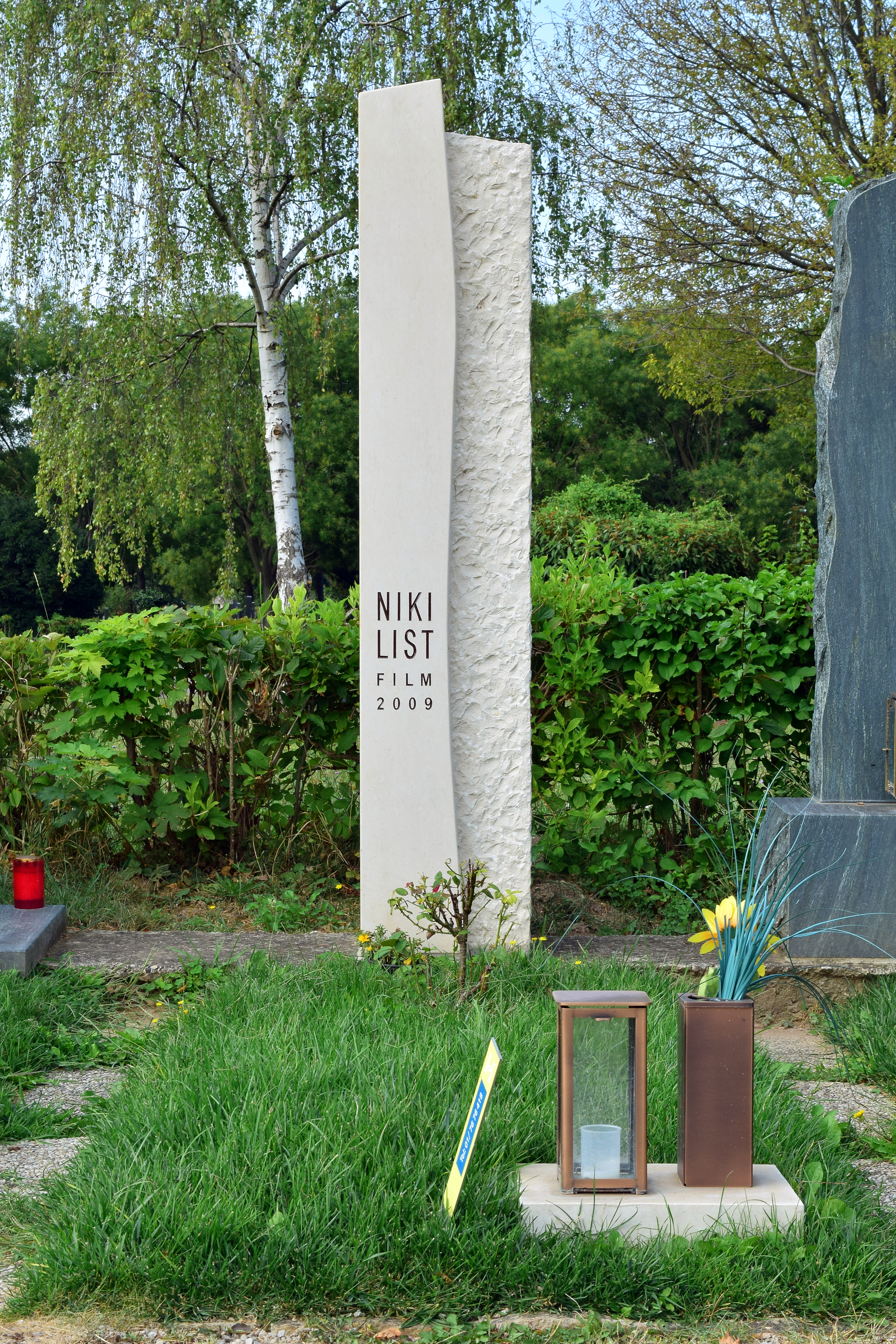 Grave of honor of the Austrian film director, screenwriter and film producer Niki List at the Wiener Zentralfriedhof